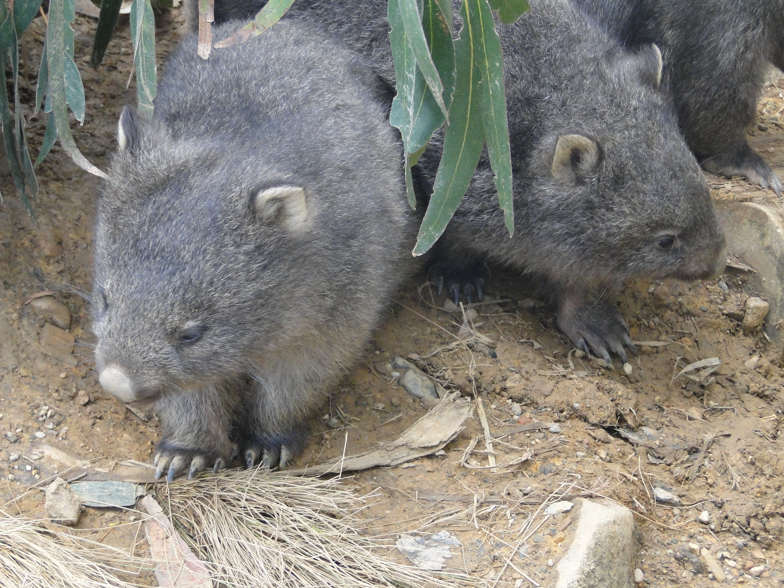 Baby wombats at Mole Creek, Tasmania, Australia